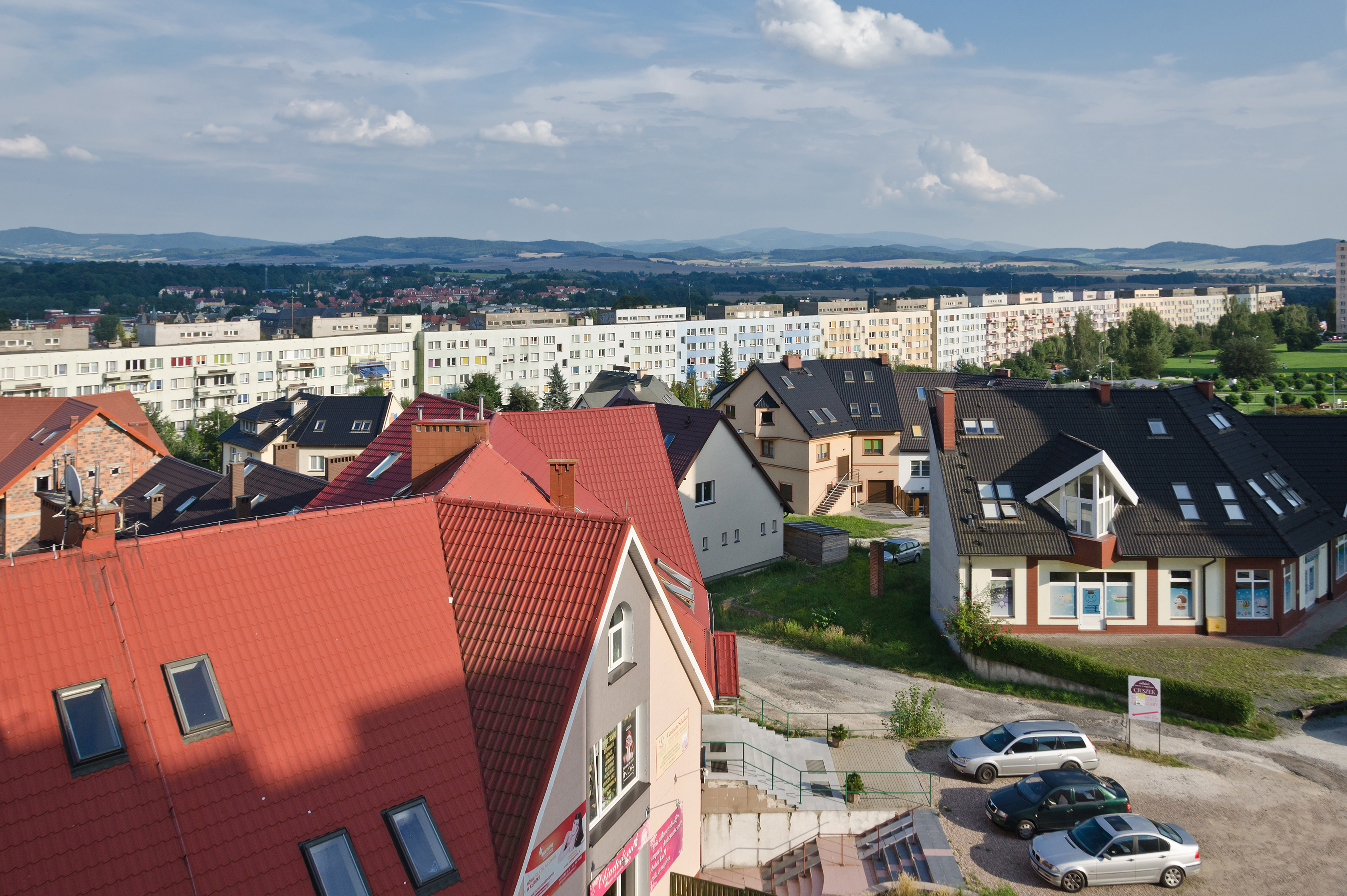 Housing Kruczkowskiego in Kłodzko